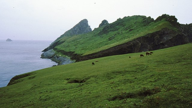 Soay sheep graze on the slope of Ruabhal, Hirta, St Kilda archipelago. That little stack you see in the distance to the left is Levenish which is about 190 feet AMSL.